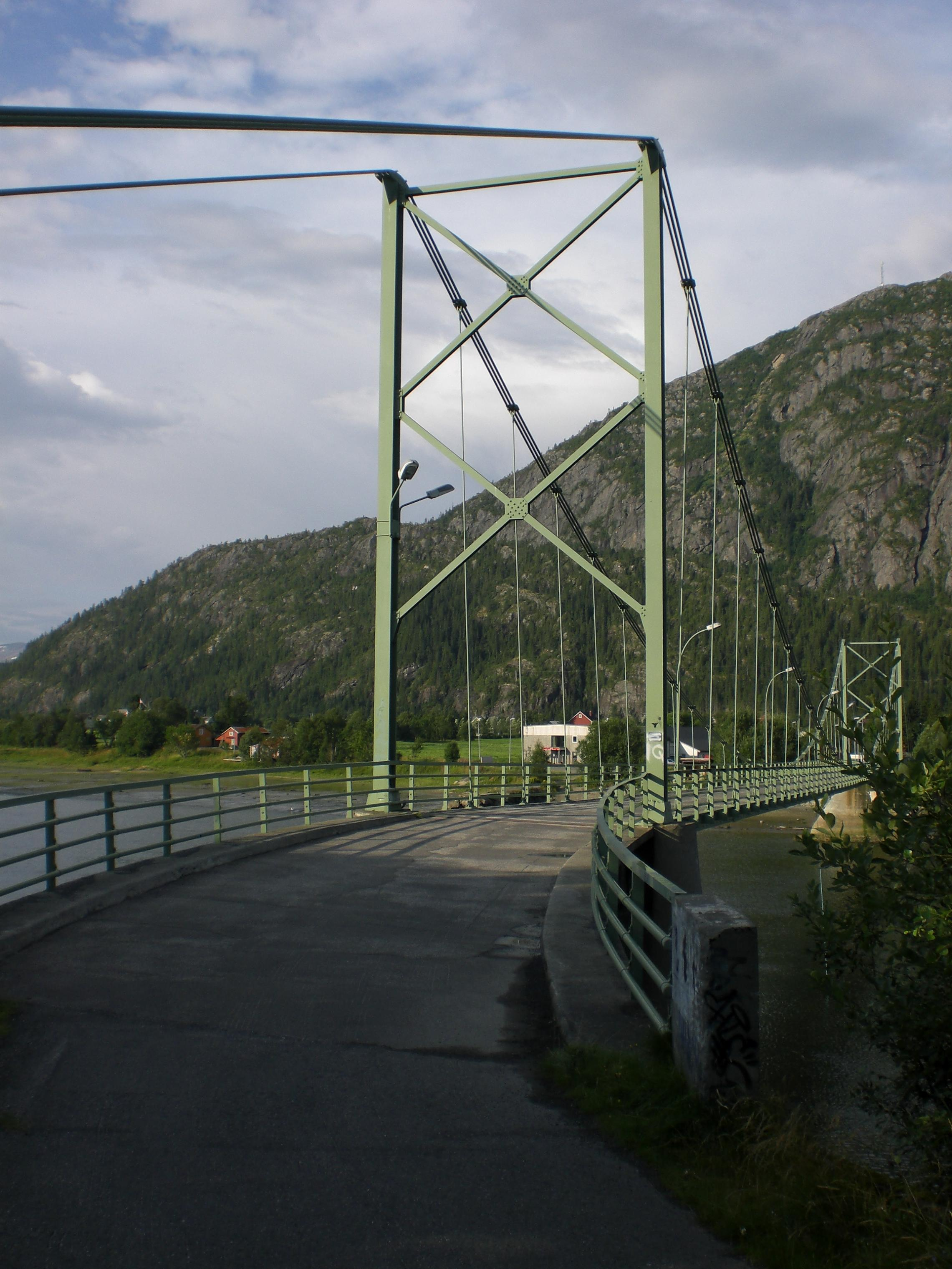 Gamle Øybrua (The Old Øya Bridge), Mo in Mosjøen, Norway.